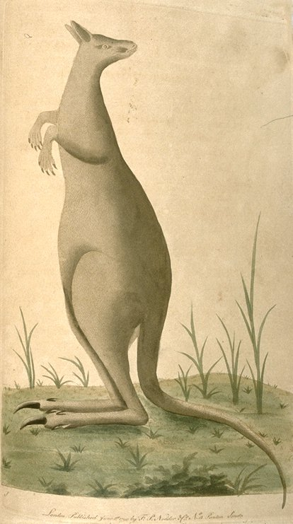 Image in Shaw, George, 1751-1813. The Naturalist's Miscellany: or Coloured Figures of Natural Objects; Drawn and Described Immediately from Nature. London: Printed for Nodder & Co., 1789-1813. The illustration is that of ... a bunyip? I'll check on this.